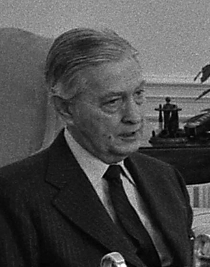 Photograph of President Ford Meeting with Secretary of State Henry Kissinger, Army Chief of Staff General Frederick Weyand, and Graham Martin, Ambassador to Vietnam, in the Oval Office.